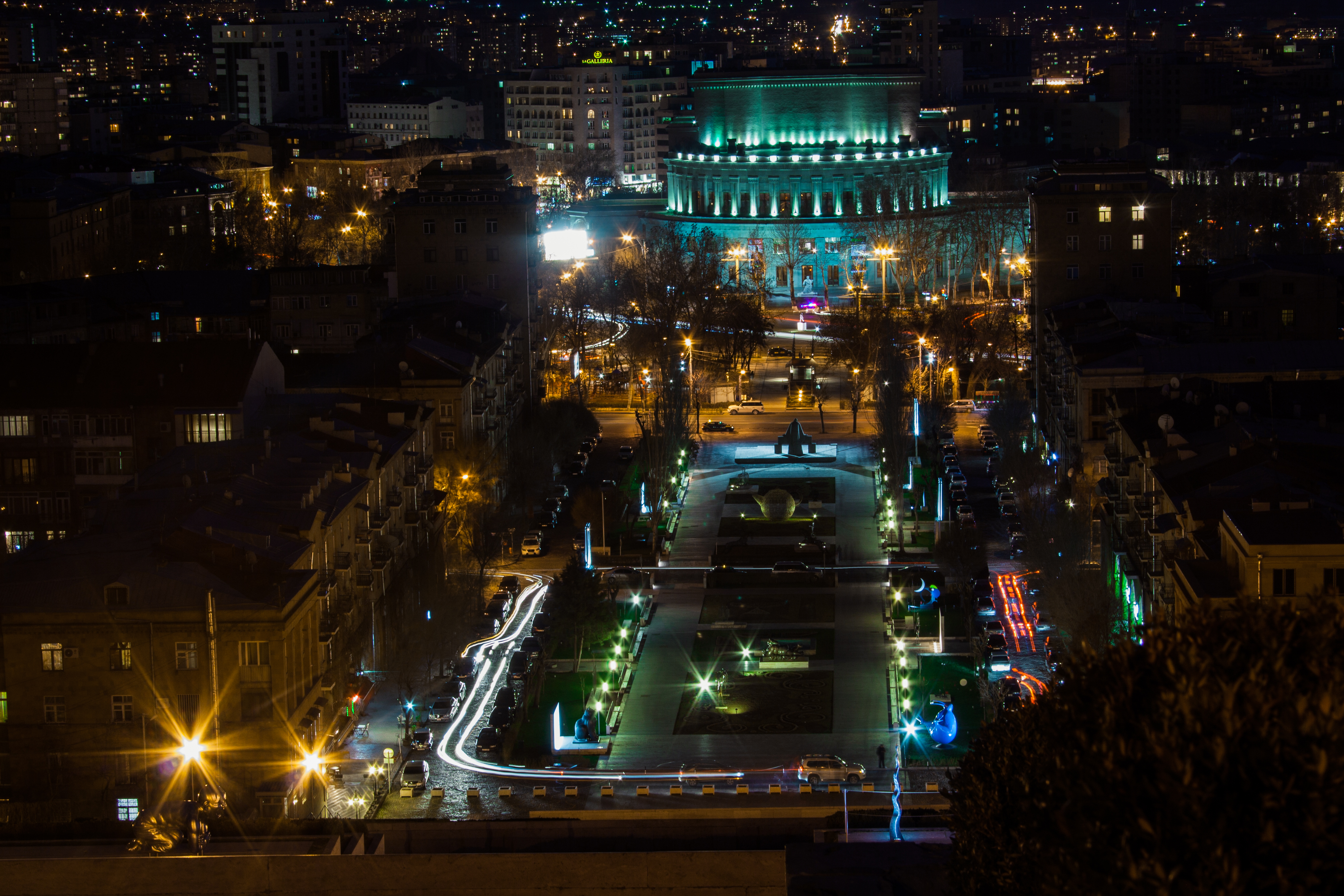 Yerevan Opera House from Cascade 6/95.2